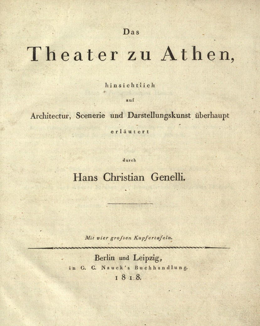 Title-page of the book "Das Theater von Athen, hinsichtlich auf Architectur, Scenerie und Darstellungskunst...", Berlin and Leipzig 1818.